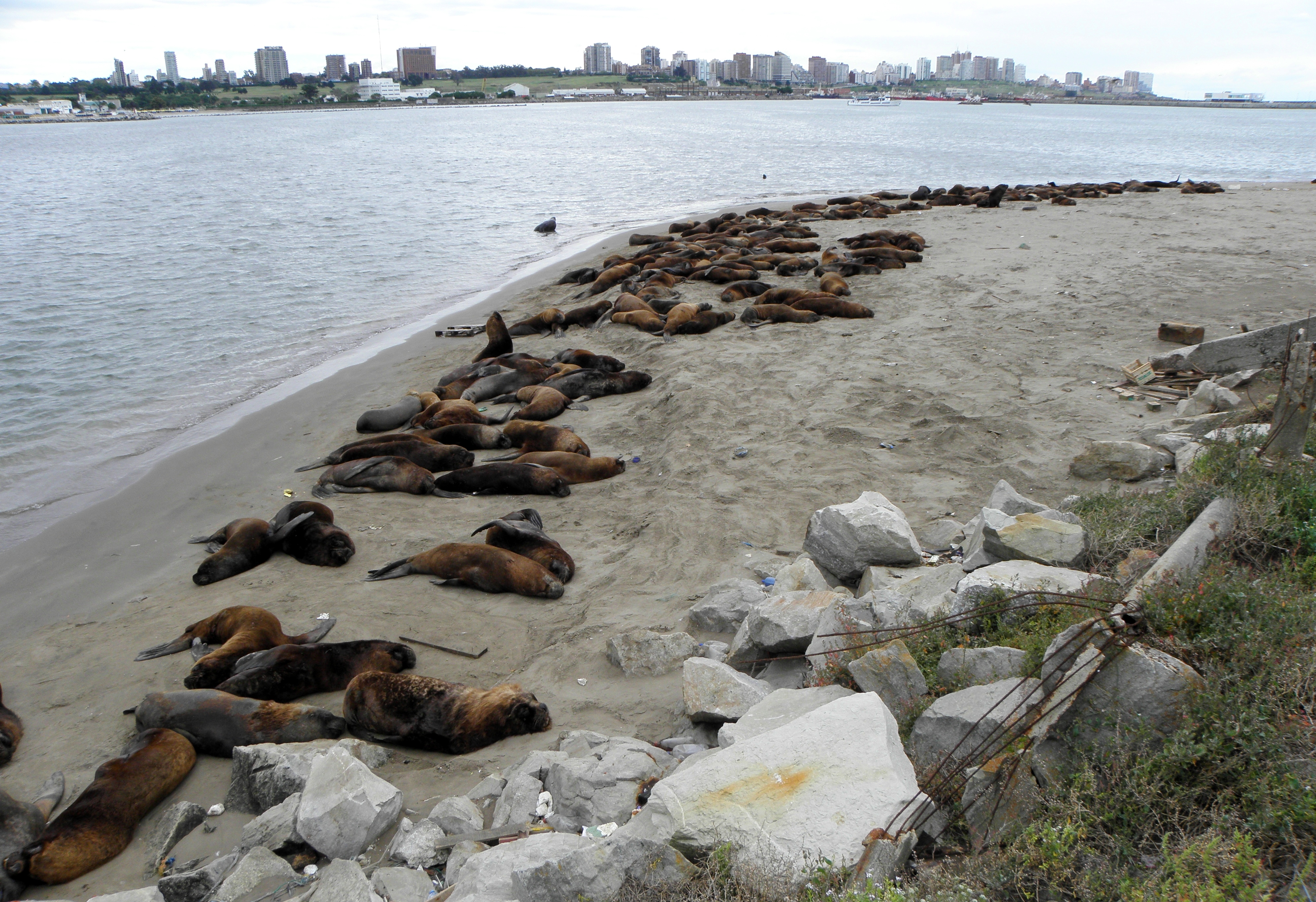 South American sea lion (Otaria flavescens) in Port of Mar del Plata, Argentina.